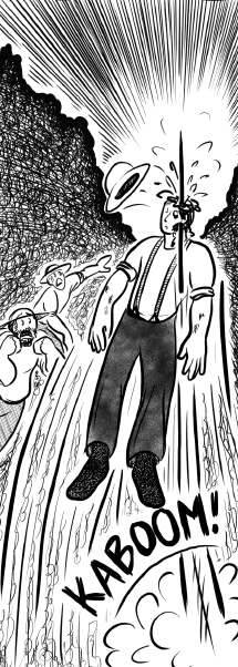 Panel from "Bring Me the Head of Phineas Gage", in Boundless: A Science Comics Anthology, vol. 1 (see [1])